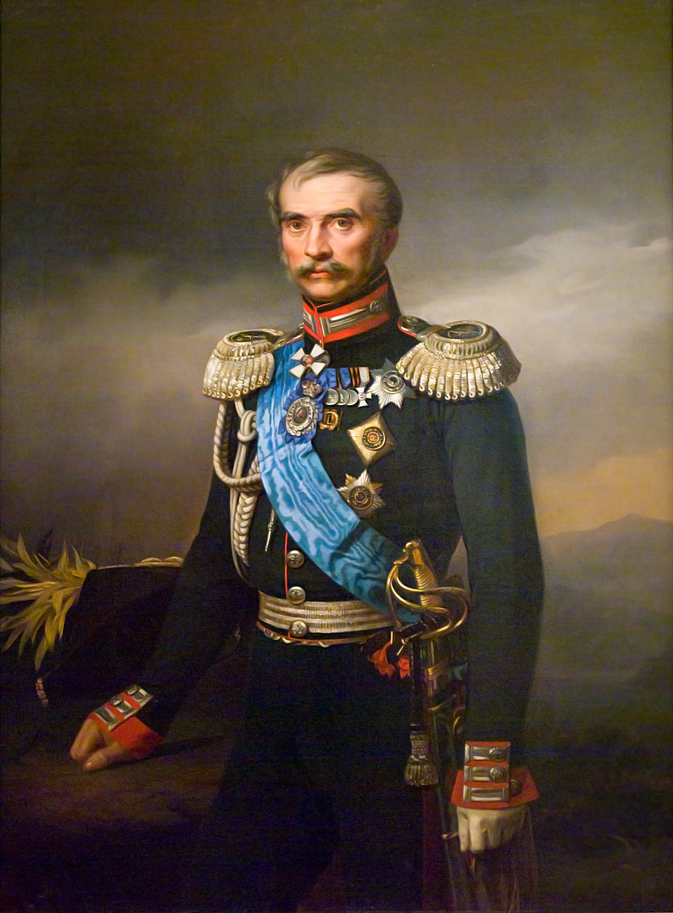 Egor Botman. after Franz Kruger. Portrait of prinse Illarion Vasilchakov in uniform of L-G Dragoon Regiment. 1840s. Oil on canvas